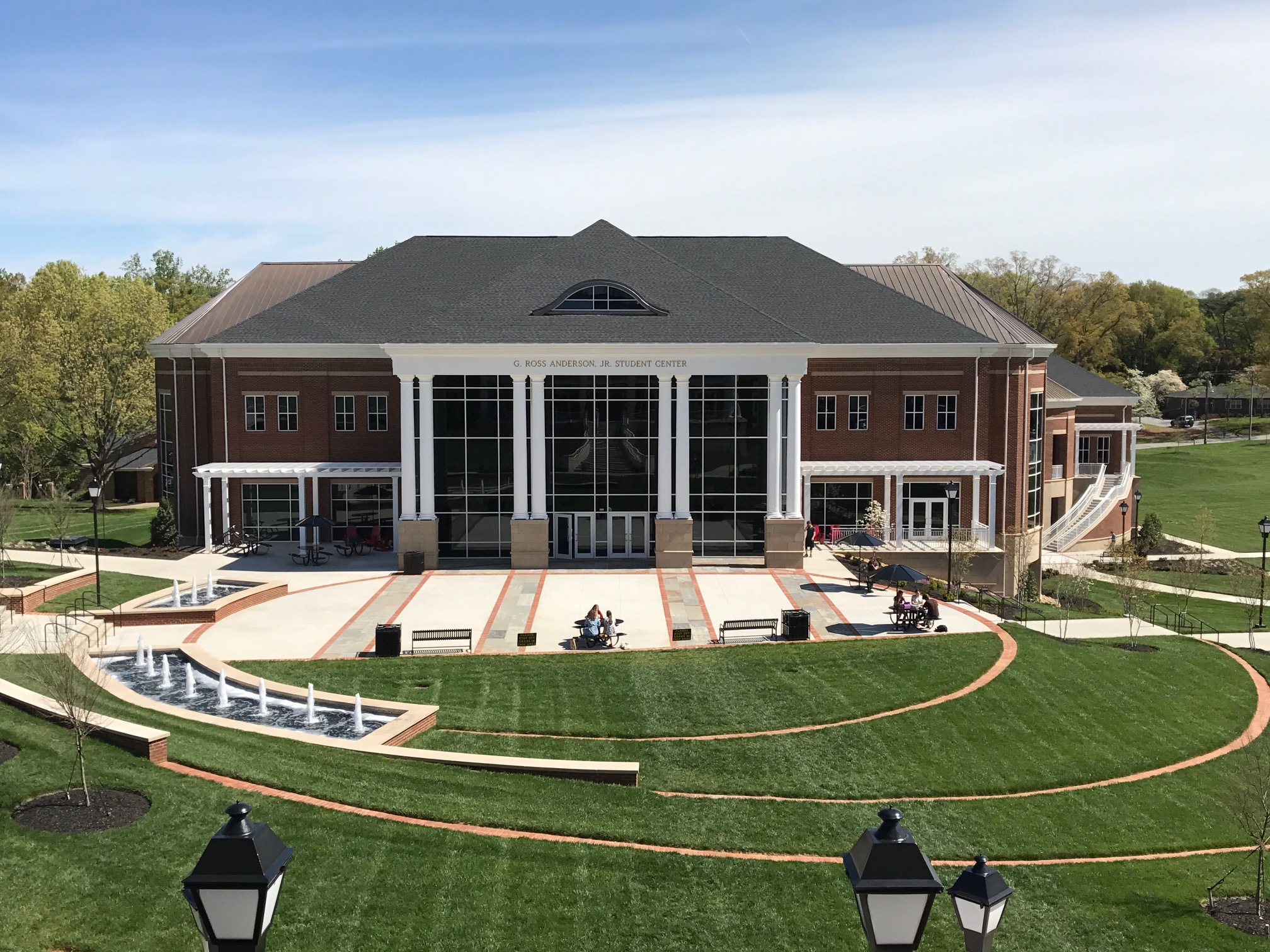 G. Ross Anderson Jr. Student Center at Anderson University